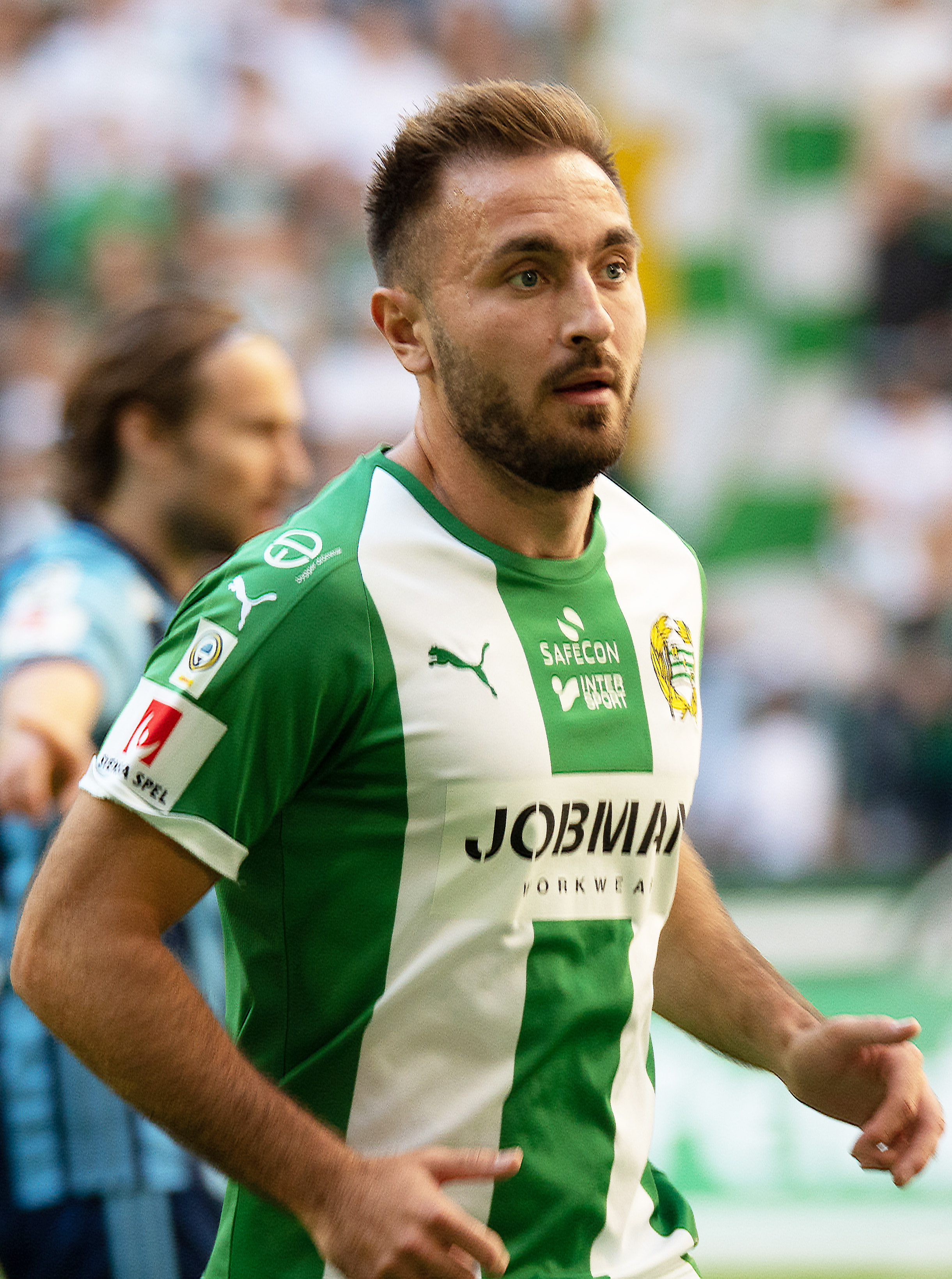 Muamer Tanković playing for Hammarby.